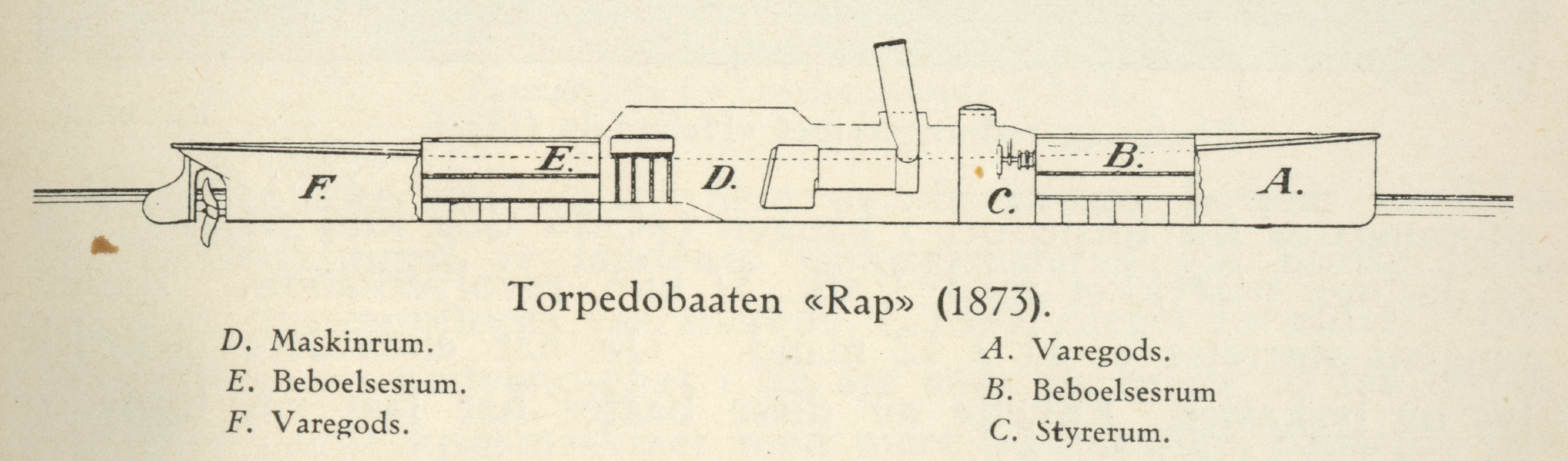 The Norwegian torpedo boat Rap (litt.: "Fast", newer Norwegian spelling: Rapp.), the world's first purpose-built torpedo boat, first built for towed torpedoes, and later fitted with ramps for launching Whitehead torpedoes. An English translation of the text below the image would be: A (and F): Goods, B (and E): Mess/quaters, C: Bridge/manouvering station. Dimensions: 18 m long, 10 tonnes, 15 knots. No: Verdens første torpedobåt, Rap, bygget i 1873 i England. Lengde: 18 meter, 10 tonns deplasement og 15 knops fart. Maskinen var en 500 hk dampmaskin.